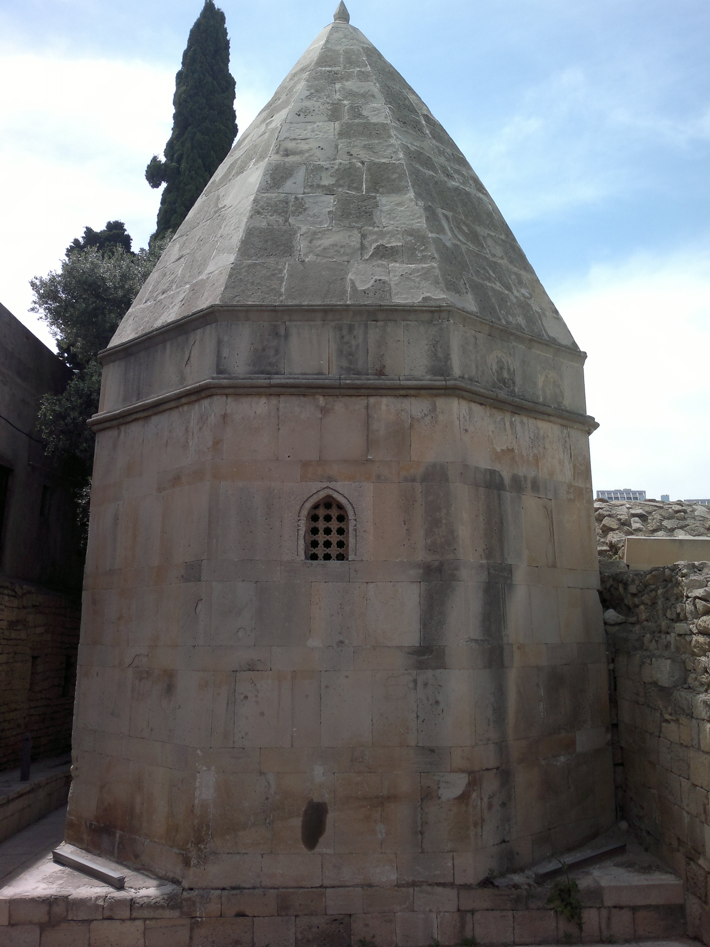 Dervish Mausoleum. Palace pf the Shirvanshahs. Baku, Azerbaijan.